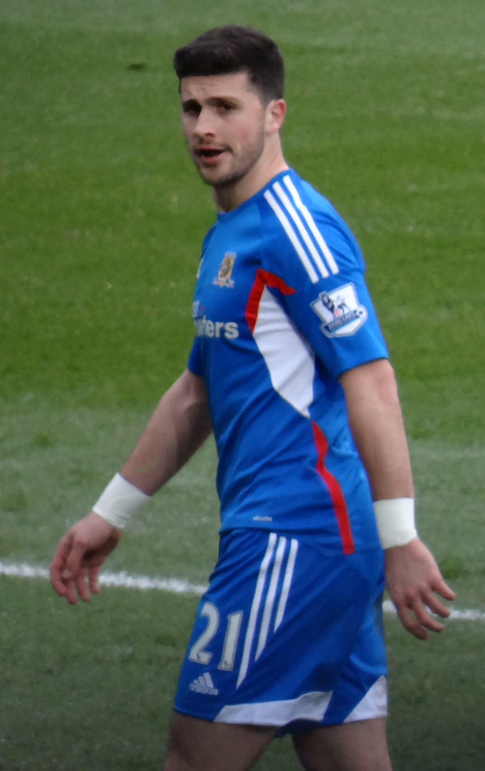 22/02/14 Cardiff City v Hull City, Premier League, Cardiff City Stadium, Cardiff, Wales